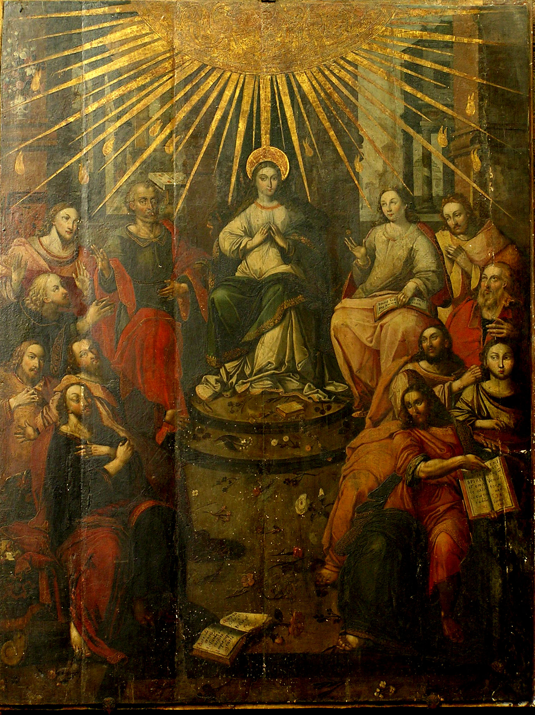 Toruń, church of St. James, Descent of the Holy Spirit (Pentecost) painting, early 16th century